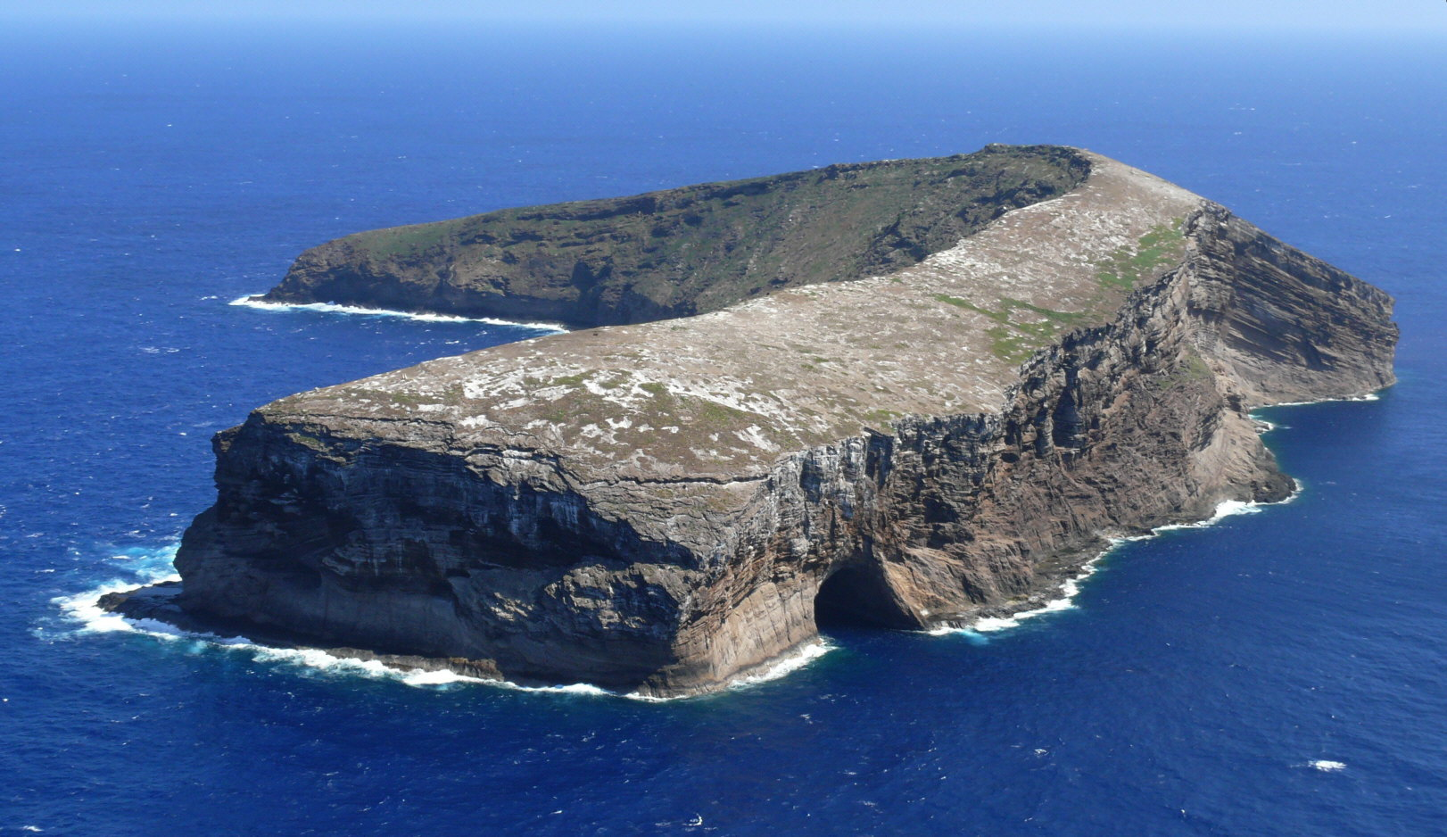 Kaula Island, viewed from the north